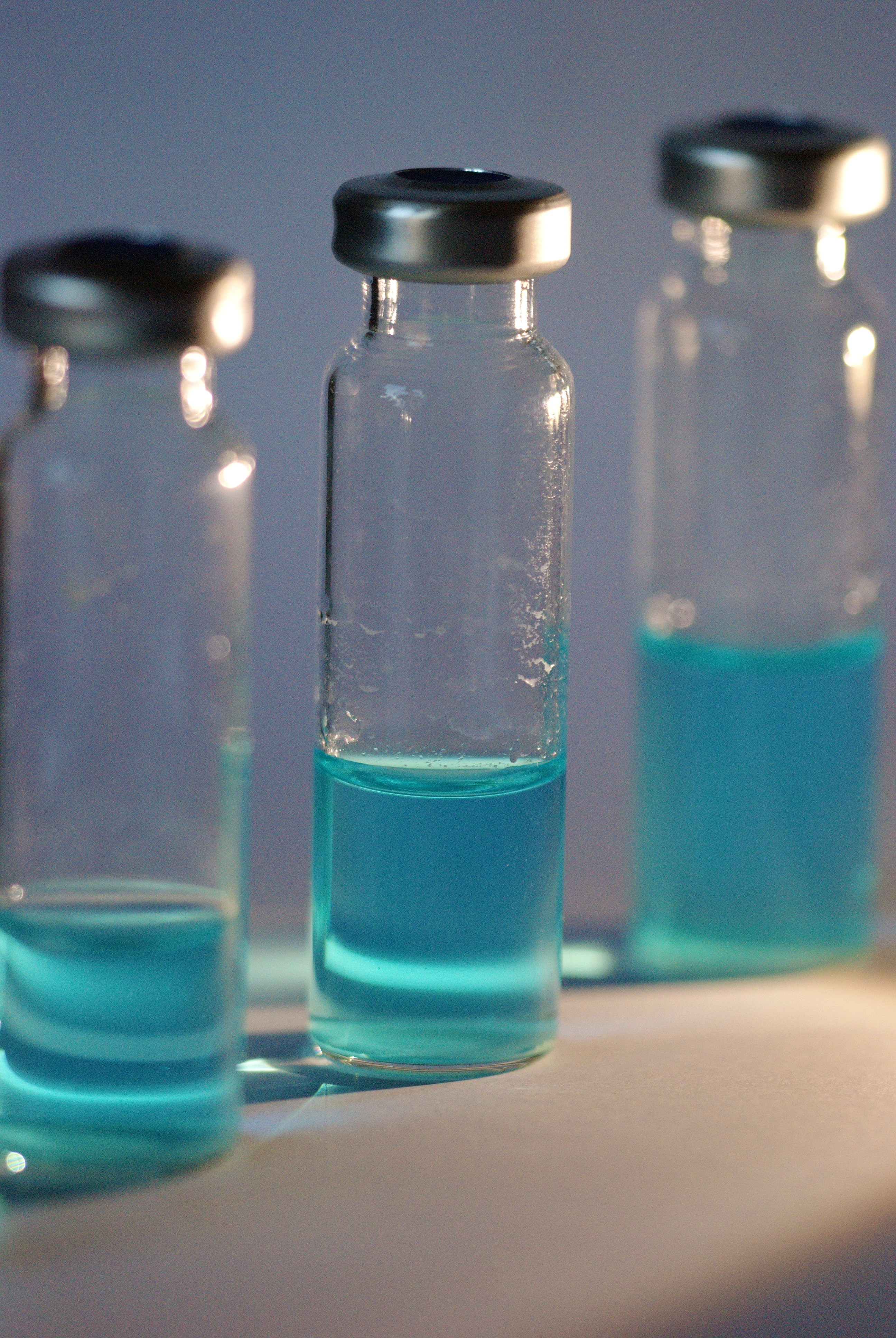 Gas Chromatography: Headspace Vials